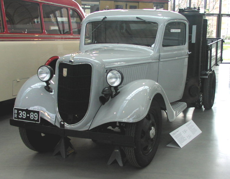 Ford V8 51 with Wood Gazifier (1942) at Traffic Section of Deutsches Museum, Munich